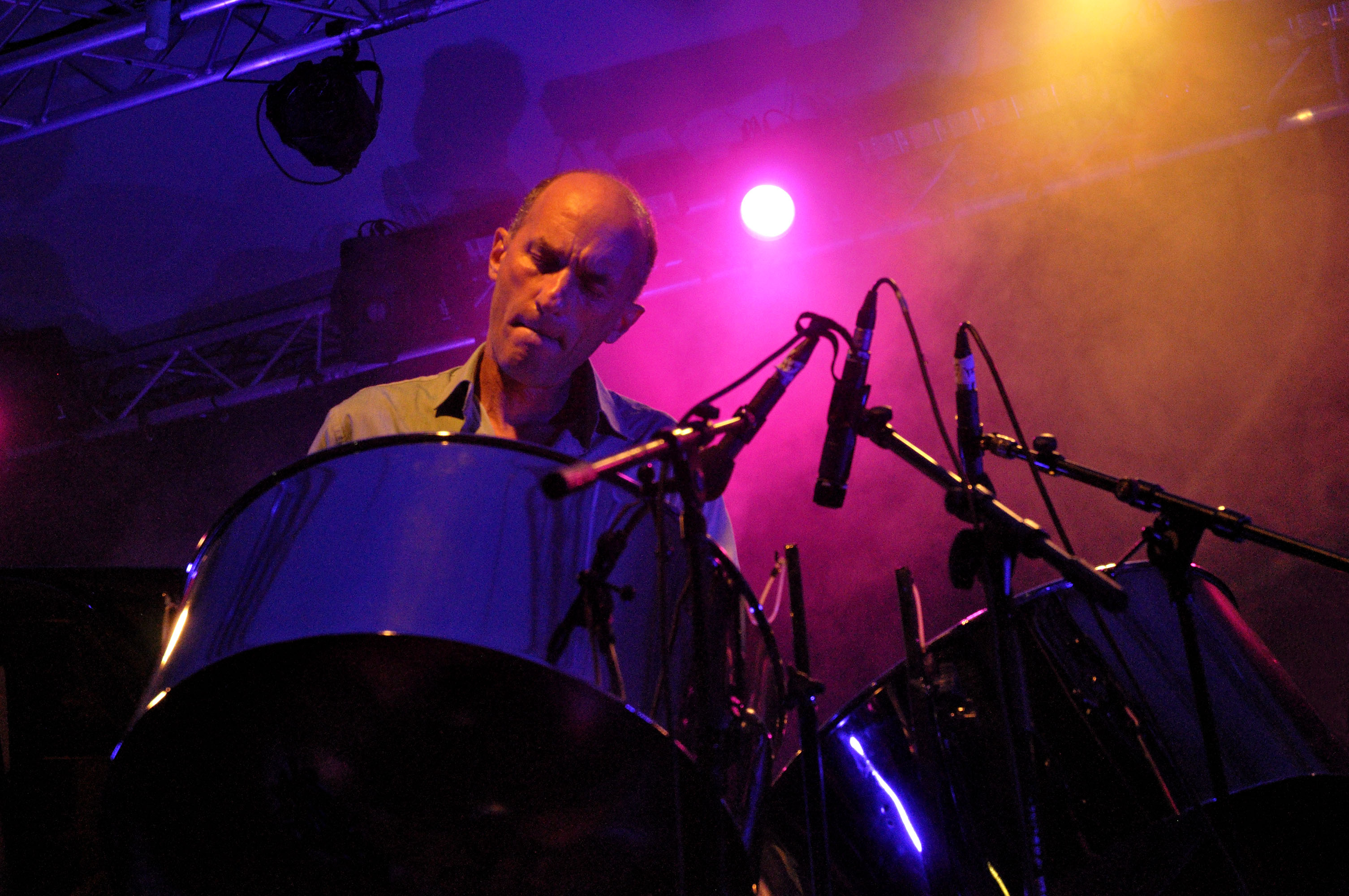 Portrait of Andy Narell, guest of André Ceccarelli Trio, taken on 2009-08-12 during the "Cap Jazz" Festival in Cap d'Ail (French Riviera).